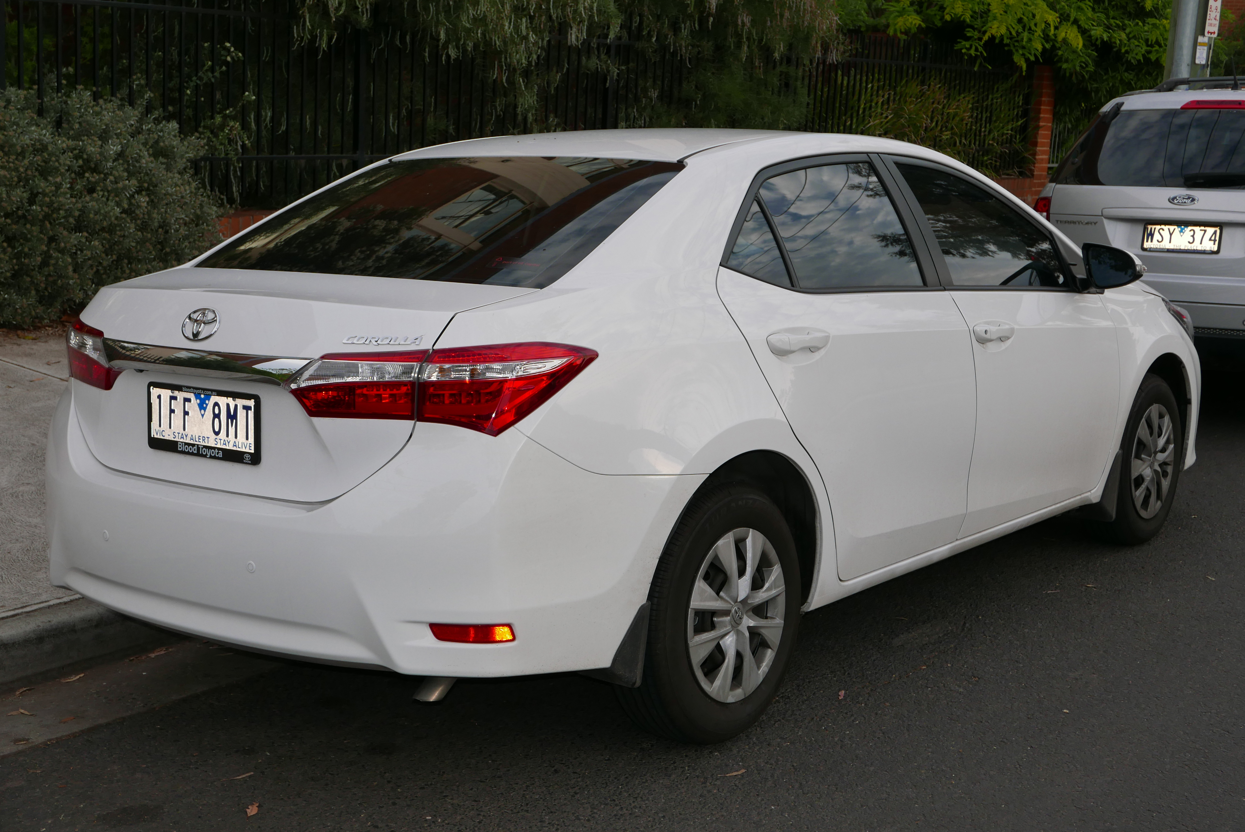 2015 Toyota Corolla (ZRE172R) Ascent sedan. Photographed in Brunswick, Victoria, Australia. Vehicle registration enquiry results Jurisdiction Victoria Registration 1FF8MT Chassis code MR053REH205276005 Engine code 2ZRX516341 Compliance date 2015-06 Year of manufacture 2015